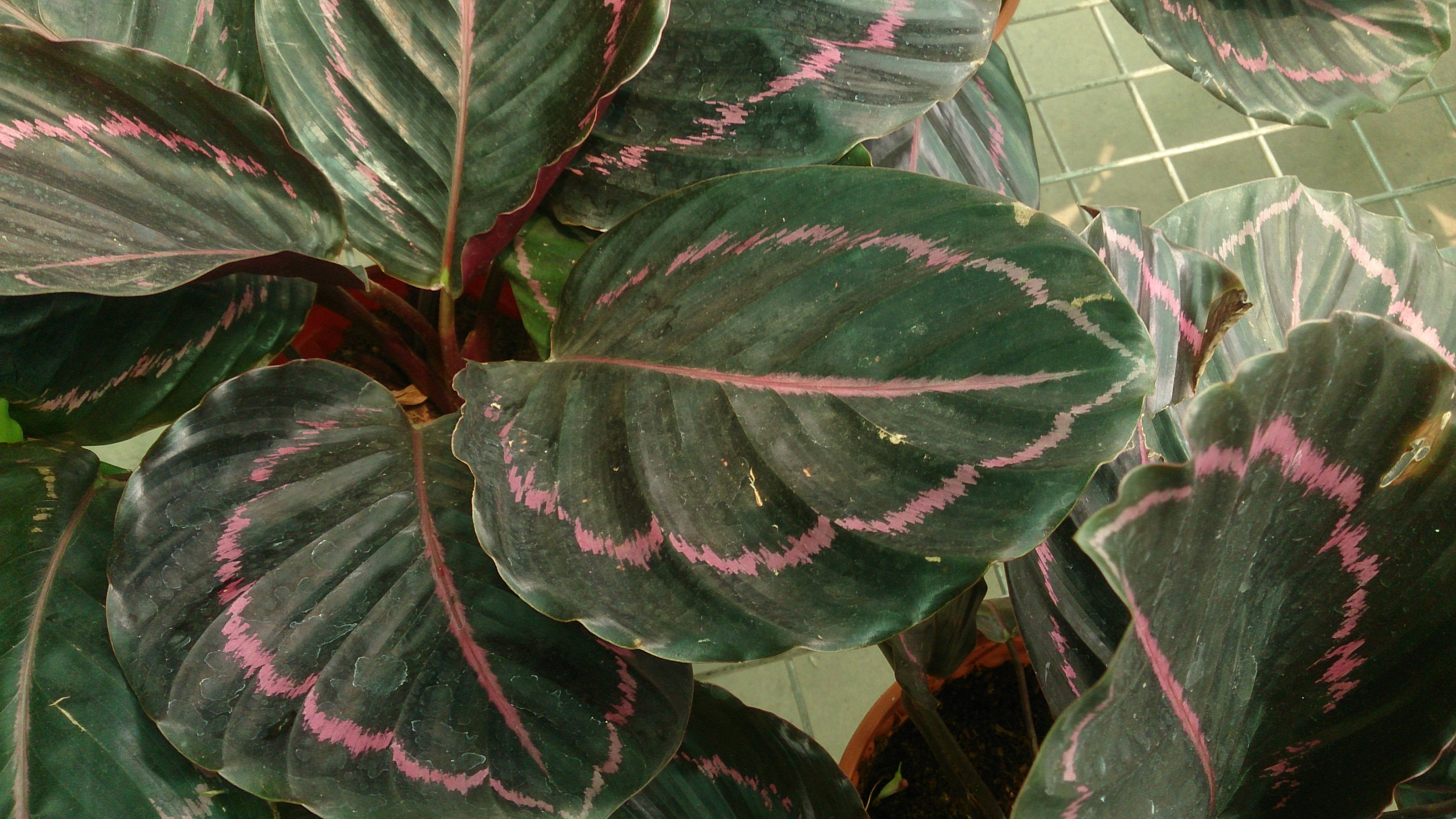 Calathea roseopicta. Common name: Rose Painted Calathea.